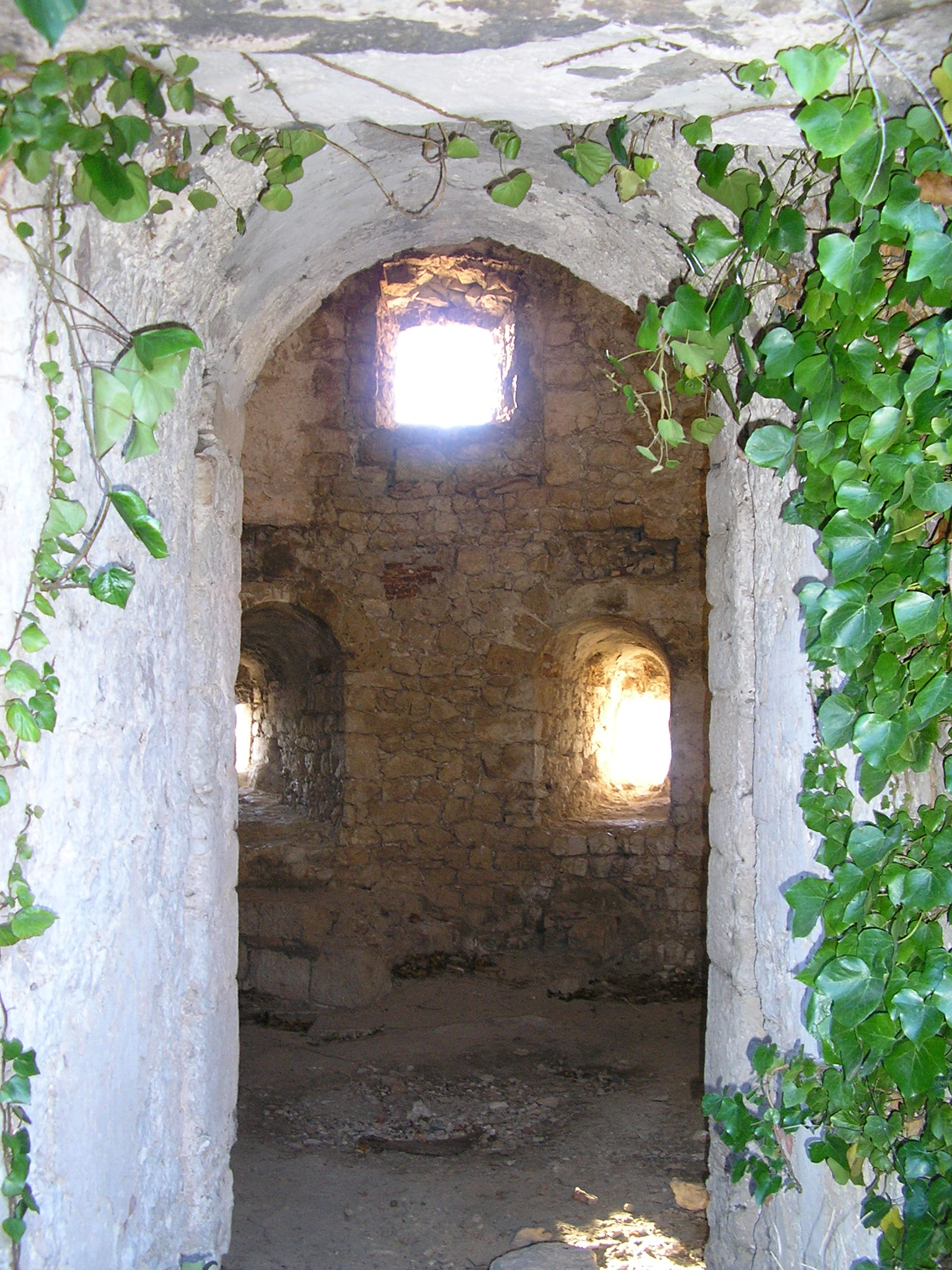 Kula Norinska fort